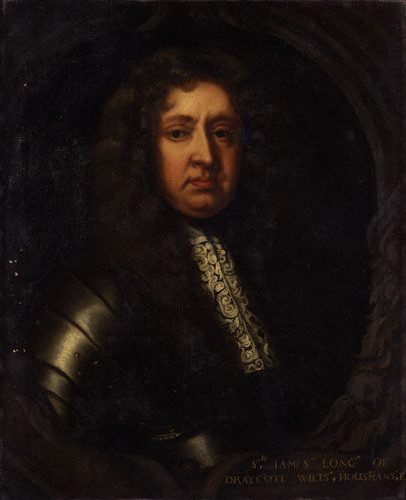 Sir James Long, 2nd Baronet (c1617-1692)